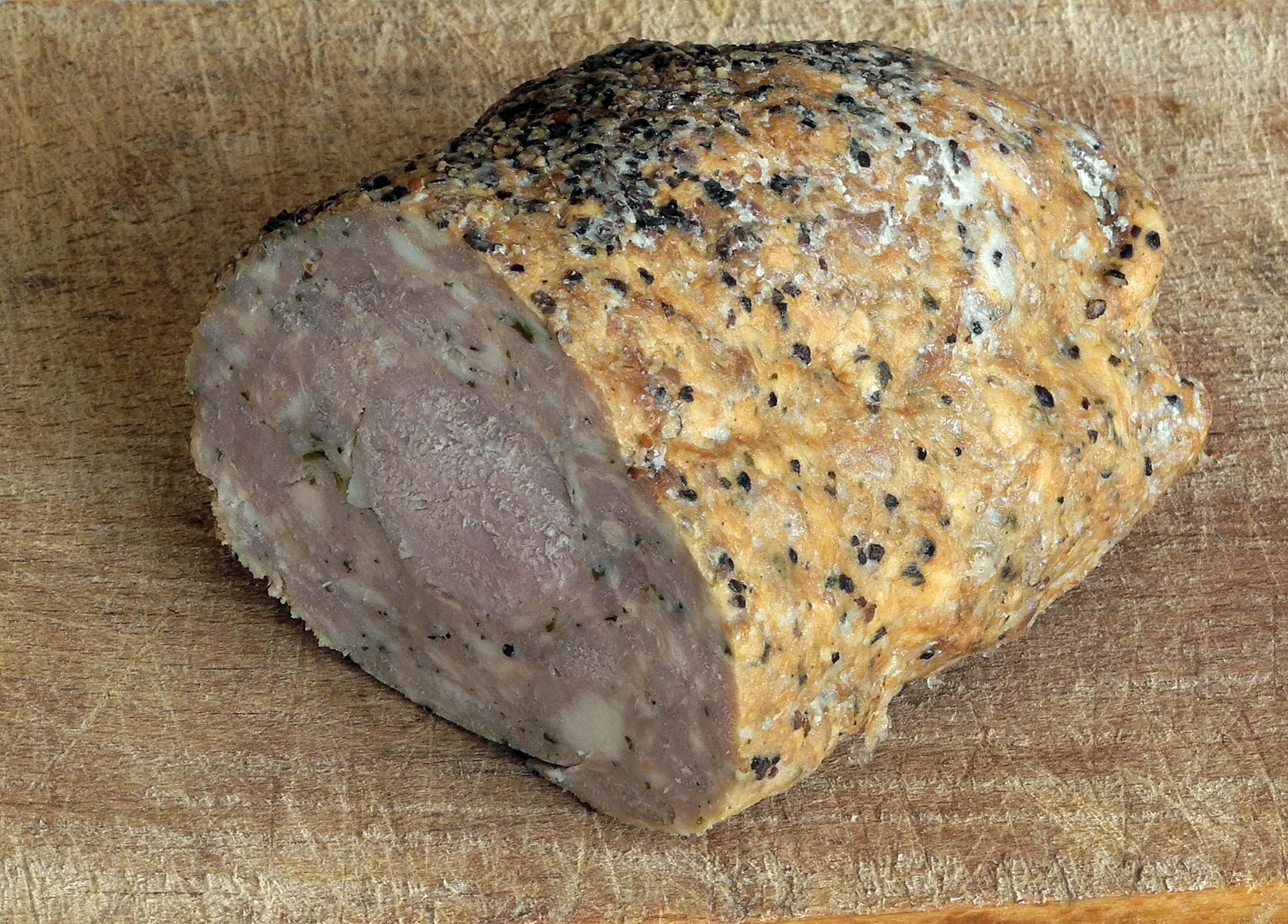 Necówka